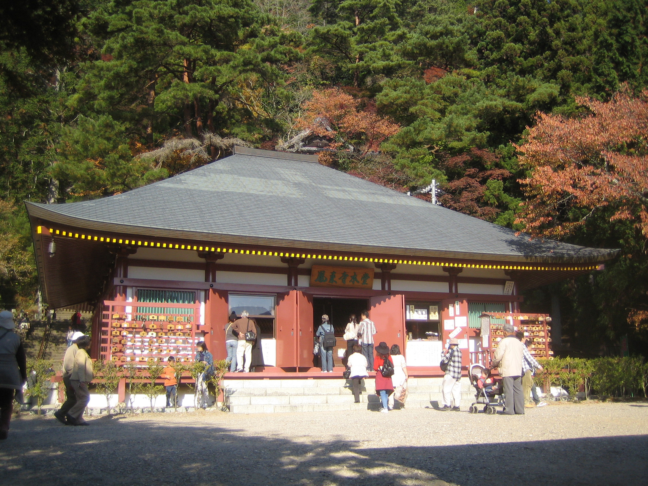 Horaiji (鳳来寺 Hōraiji), located at Horaiji, Kadoya, Shinshiro, Aichi, Japan